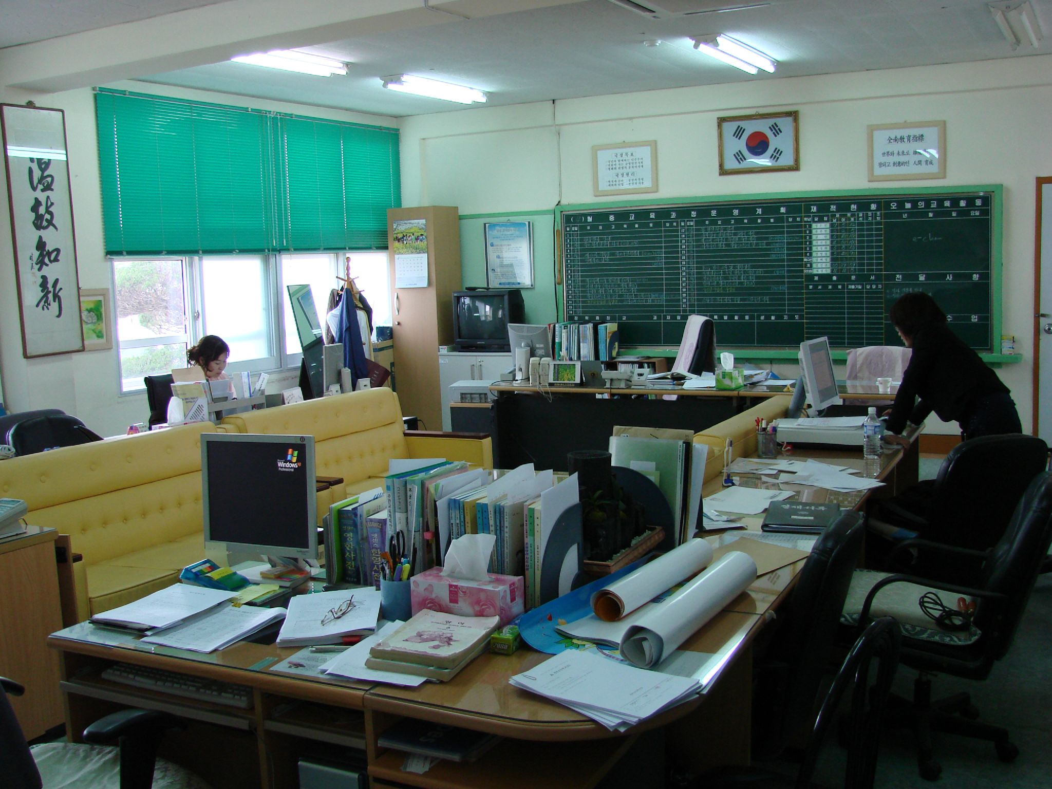 Teacher's office at a country school near Suncheon, Korea.